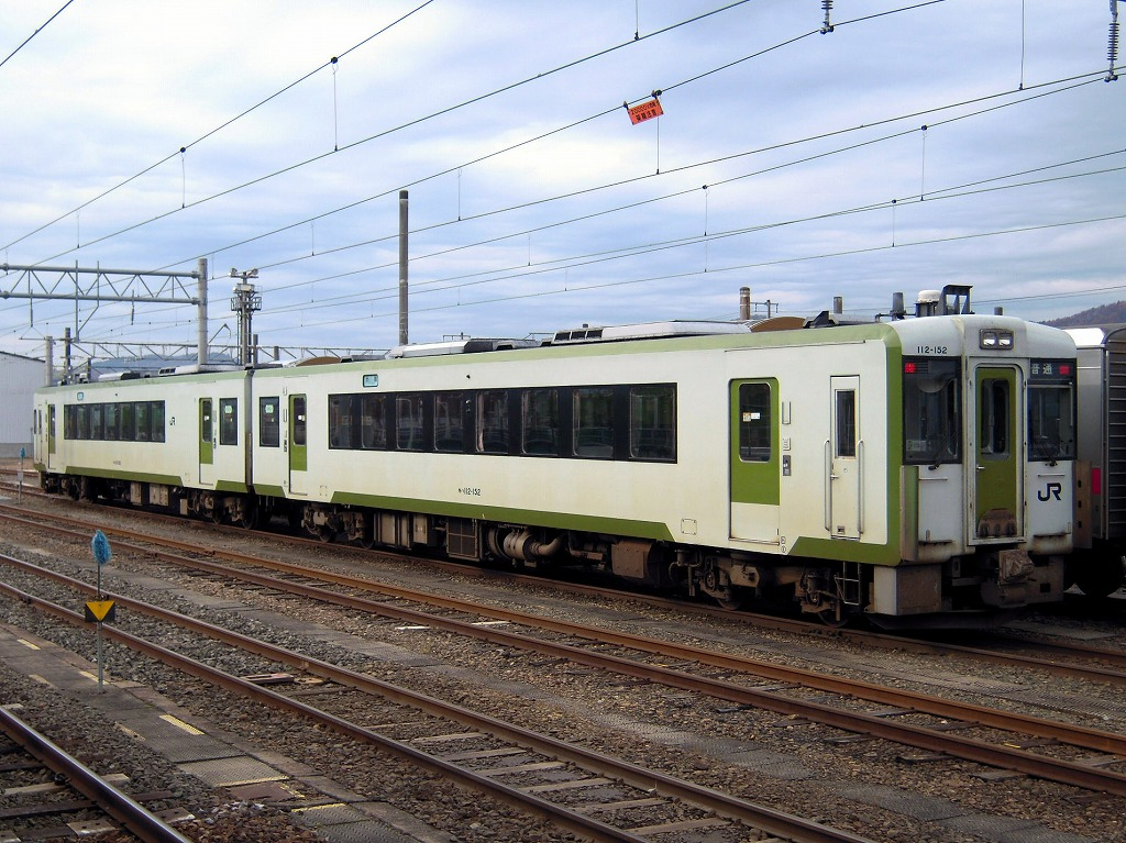 JR East KiHa 110 series DMU twin set KiHa 111-152 + KiHa 112-152 at Odate Station